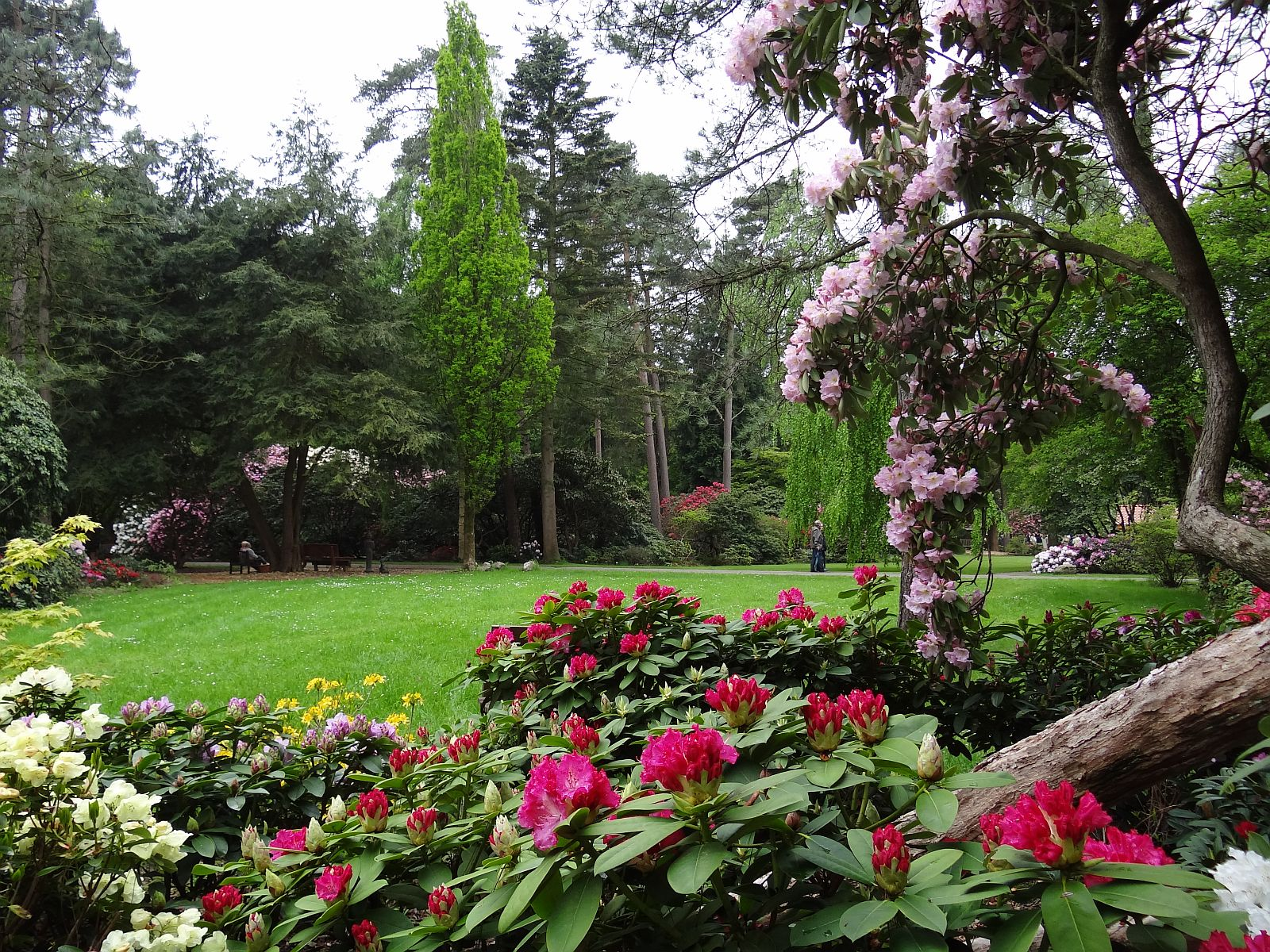 Rhododendronpark